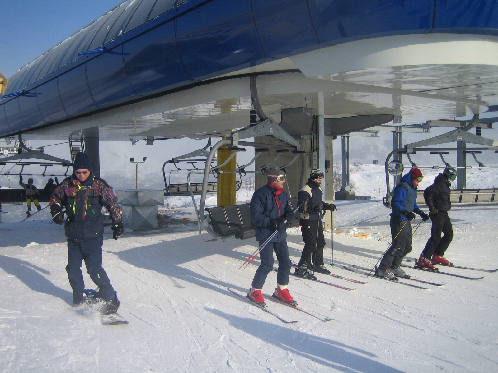 The lift "Hollvin Express" in Hemsedal